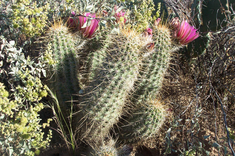 Echinocereus fasciculatus in Saguaro National Park, AZ, US. Taken by Xiao Li.